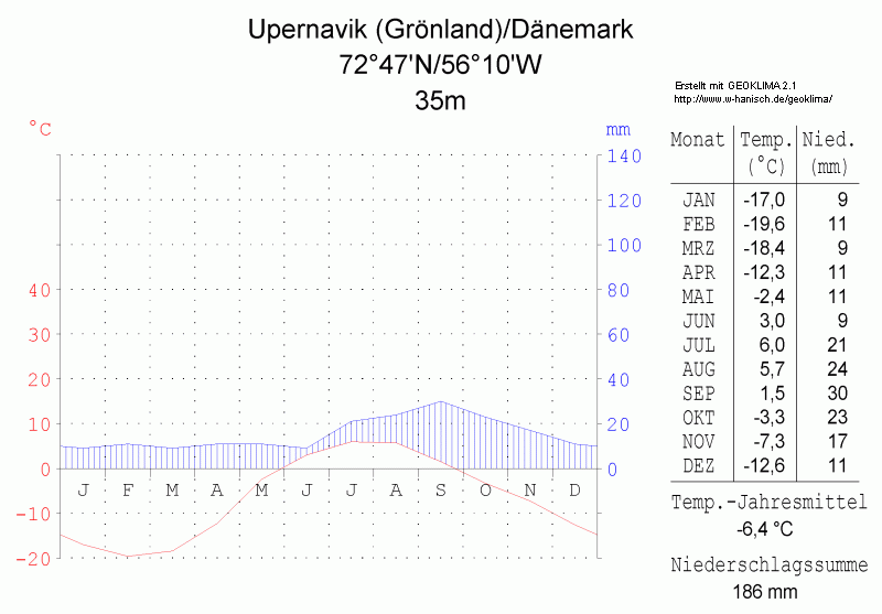 climate chart in the format by Walther and Lieth, metric, °Celsisus and millimeters, made with Geoklima 2.1